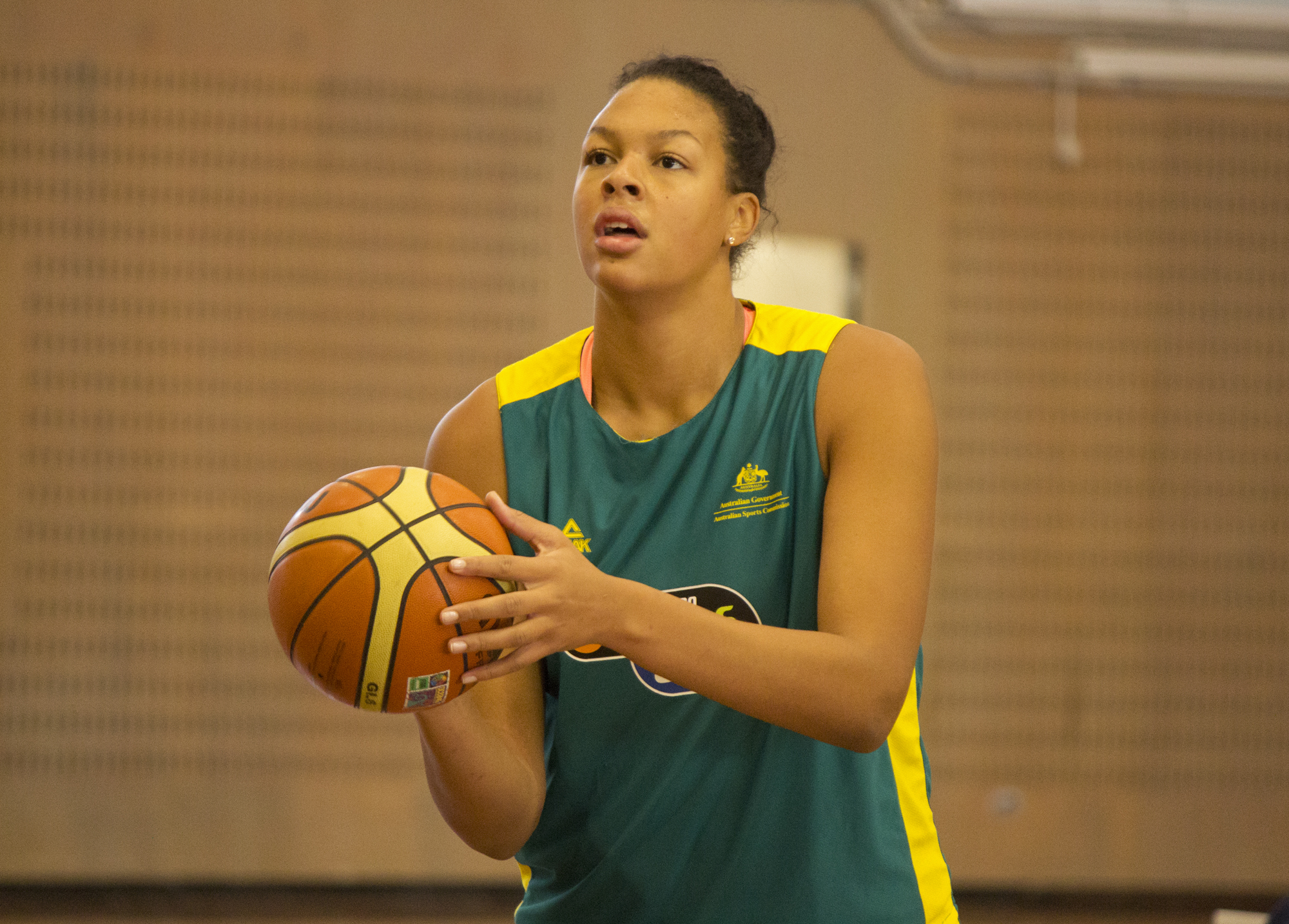 Elizabeth Cambage at day three of the Opals camp.